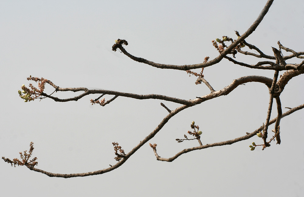 Indian frankincense, Salai or SALLAKI Boswellia serrata in Kinnerasani Wildlife Sanctuary, Andhra Pradesh, India.